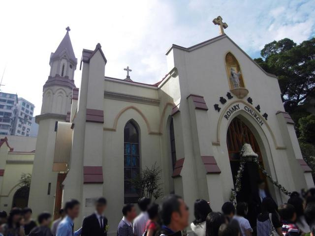 Rosary Church Kowloon, Hong Kong, China